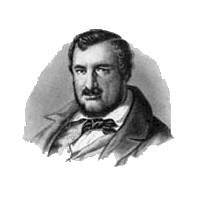 Wilhelm von Braun (1830-1860), Swedish author.